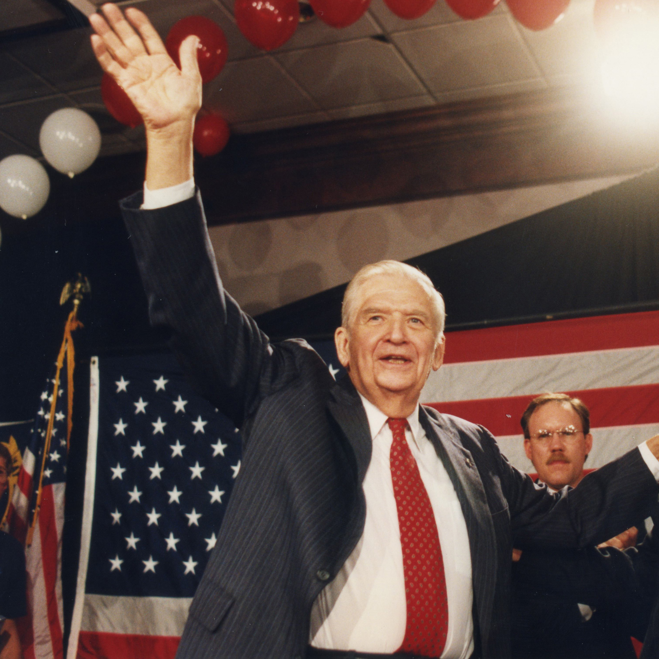 Former North Carolina Governor Terry Sanford waves and smiles, despite losing re-election to the Senate. November 3, 1992.